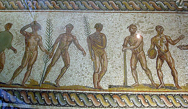 Mosaic floor depicting various athletes wearing wreaths. From the Museum of Olympia.